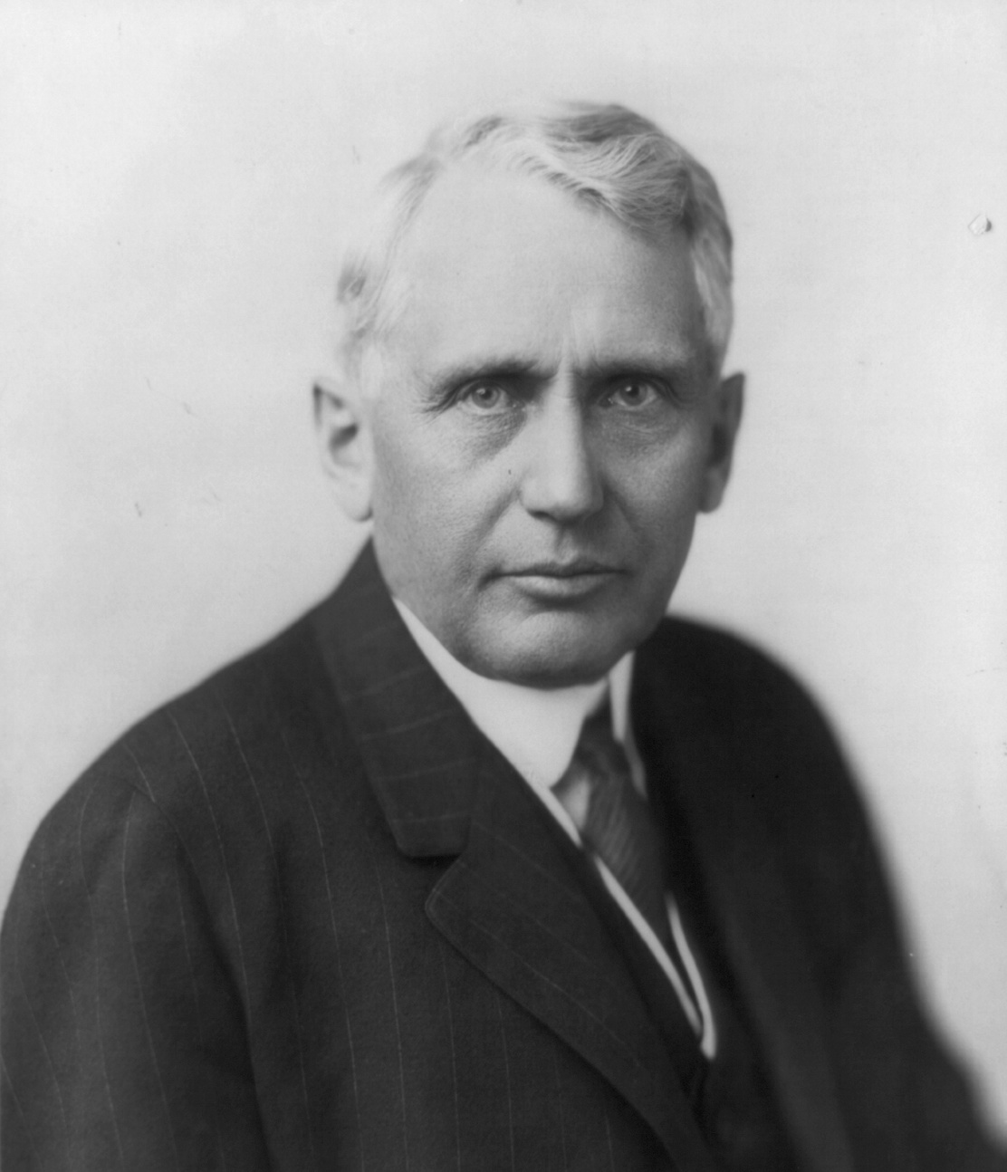 Frank B. Kellogg was an American politician and statesman. 1929 Nobel Peace Prize.